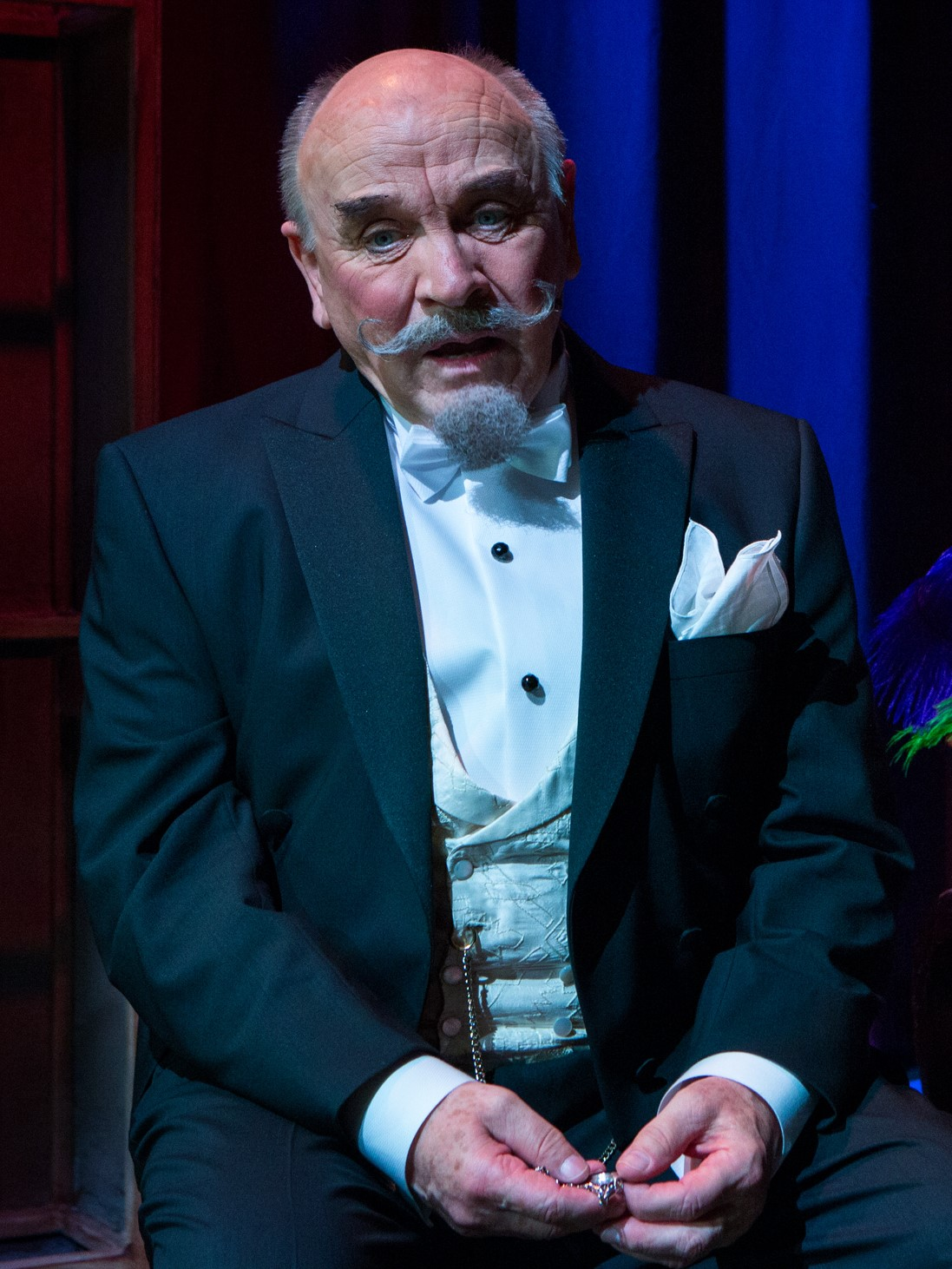 Asger Reher in the Copenhagen theater Folketeatret's production of the play "Frøken Nitouche" (Mam'zelle Nitouche) by Henri Meilhac and Albert Millaud.